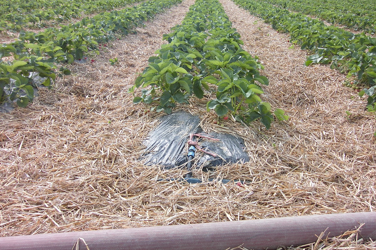 Strawberry field